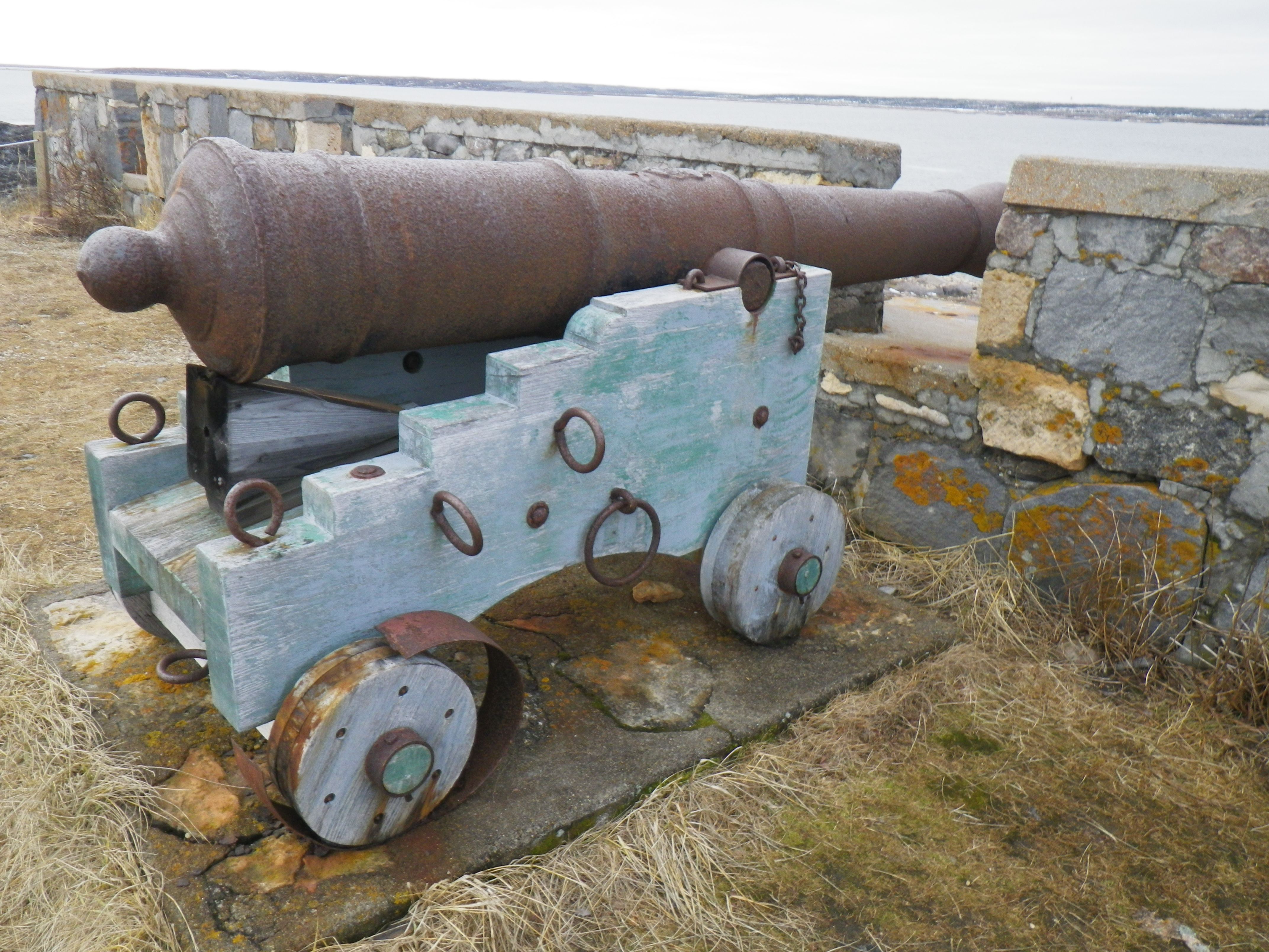 Across the Churchill river from the original fort Churchill at Cape Merry, there is a gun battery that held 6 cannons to compliment the fortress' defenses.